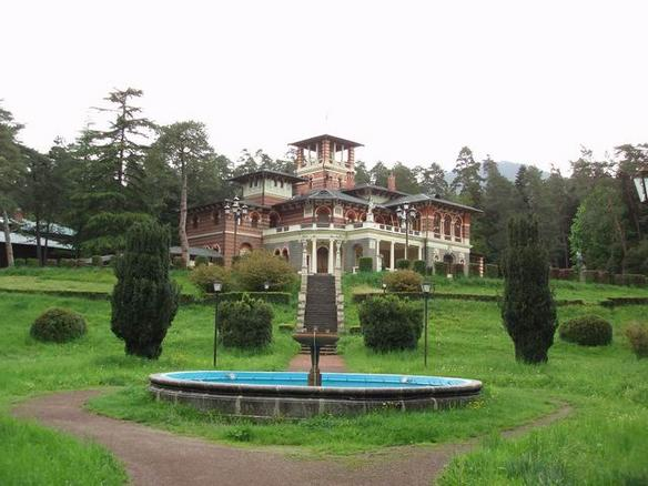 Likani Parks and the former Romanov Summer Residence near Borjomi, Georgia